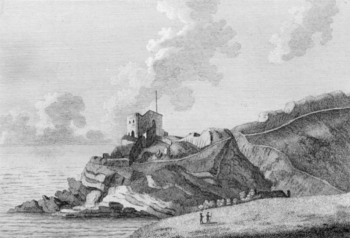 1786 engraving of St Catherine's Castle